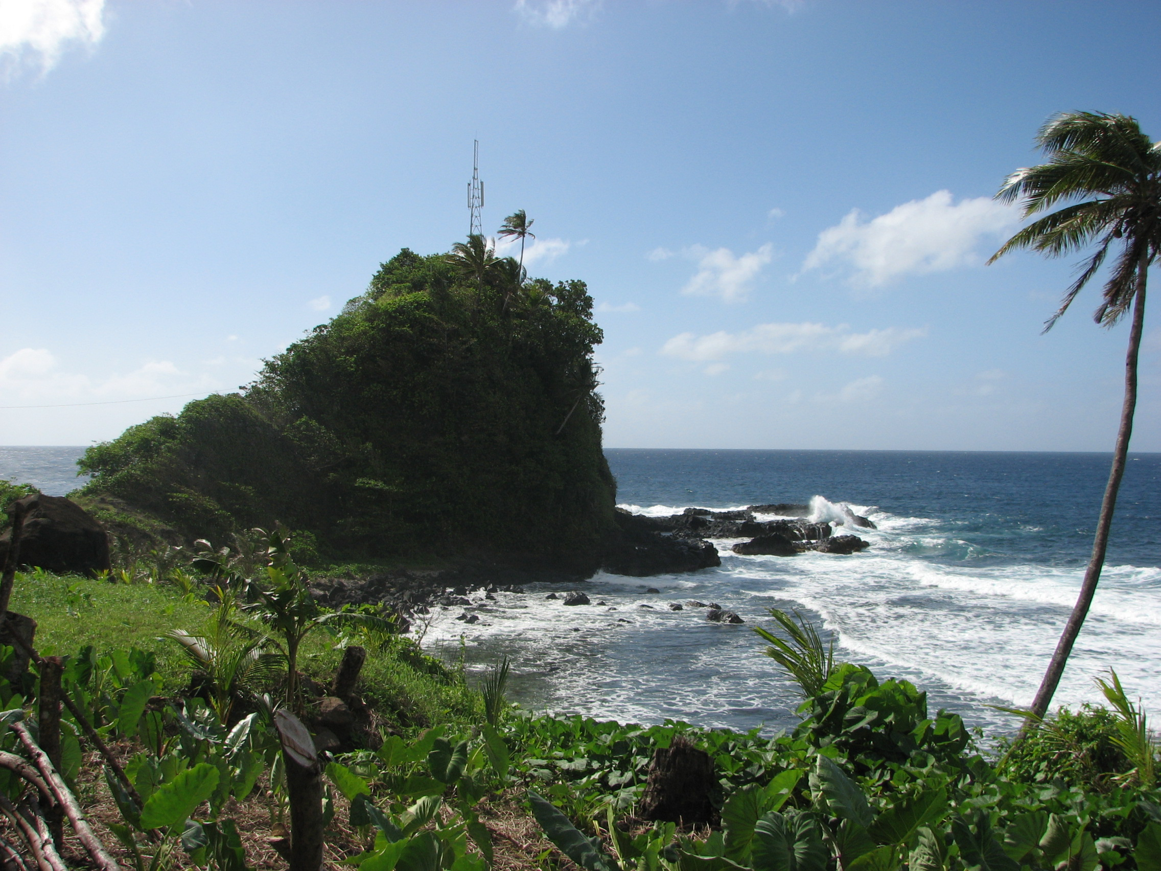 Plum Pudding Rock by Solosolo village, north east coast, Upolu Island. A local surfing spot.